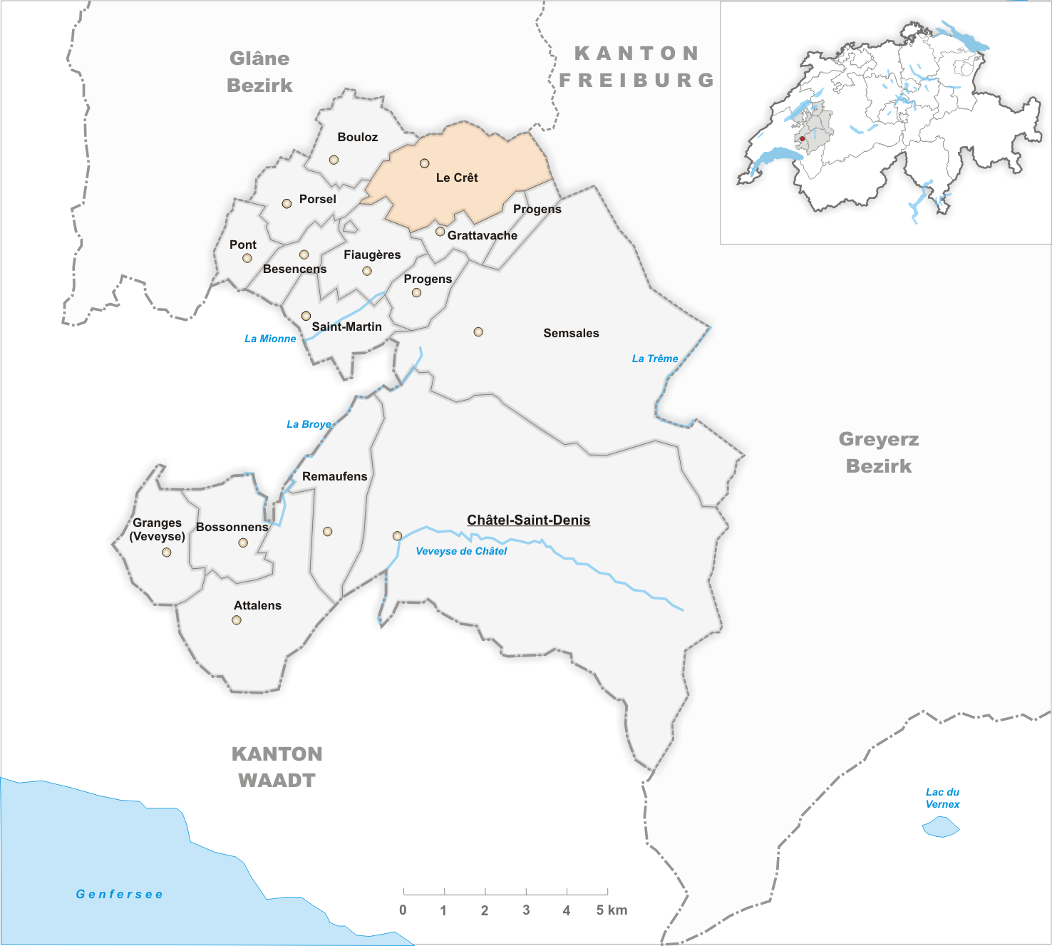 Municipality Le Crêt Artist: Tschubby